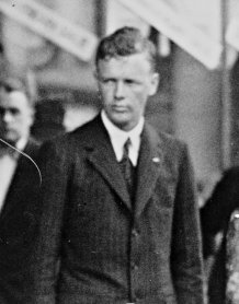 Mr. and Mrs. Charles A. Lindbergh leaving church in the Washington, D.C. area